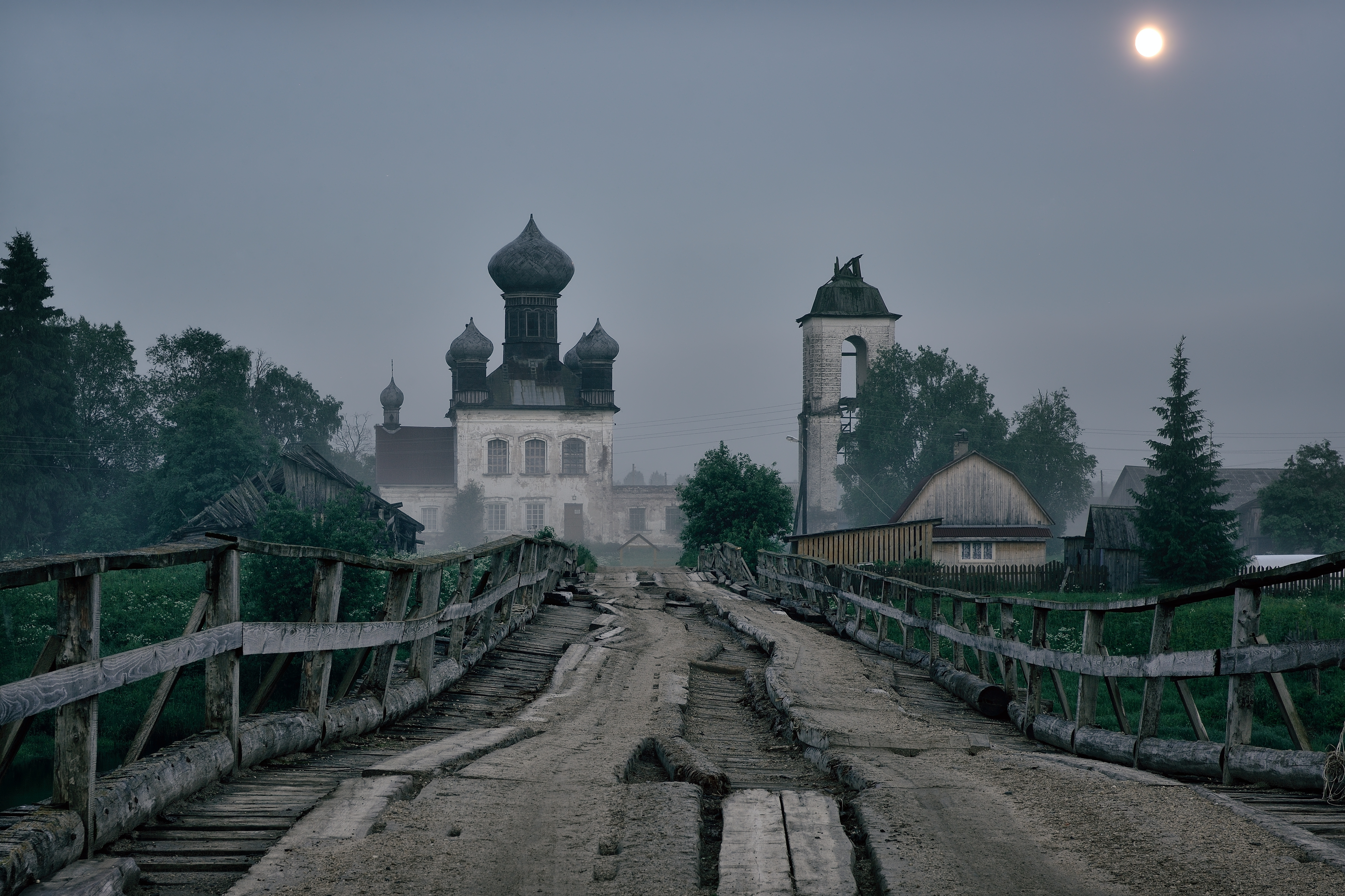 Old wooden bridge and Paraskeva Pyatnitsa Church in Leshino, Arkhangelsk Oblast, Russia